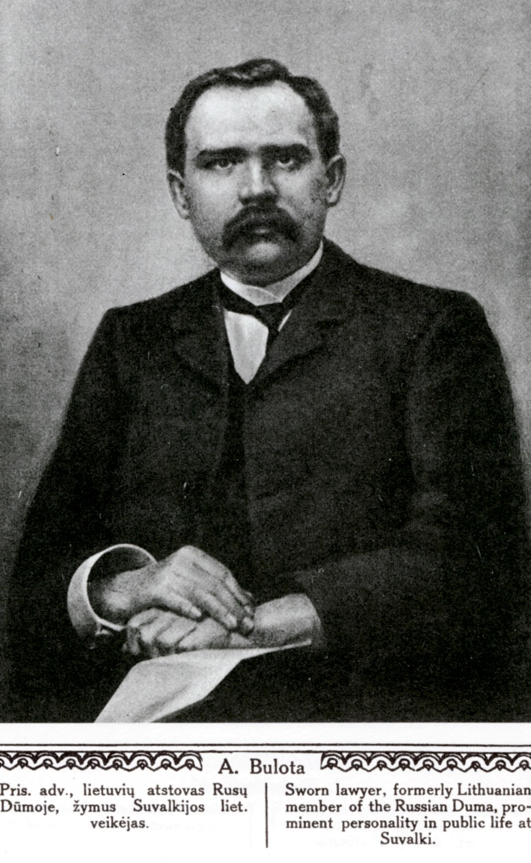 Andrius Bulota, lawyer, member State Duma of the Russian Empire